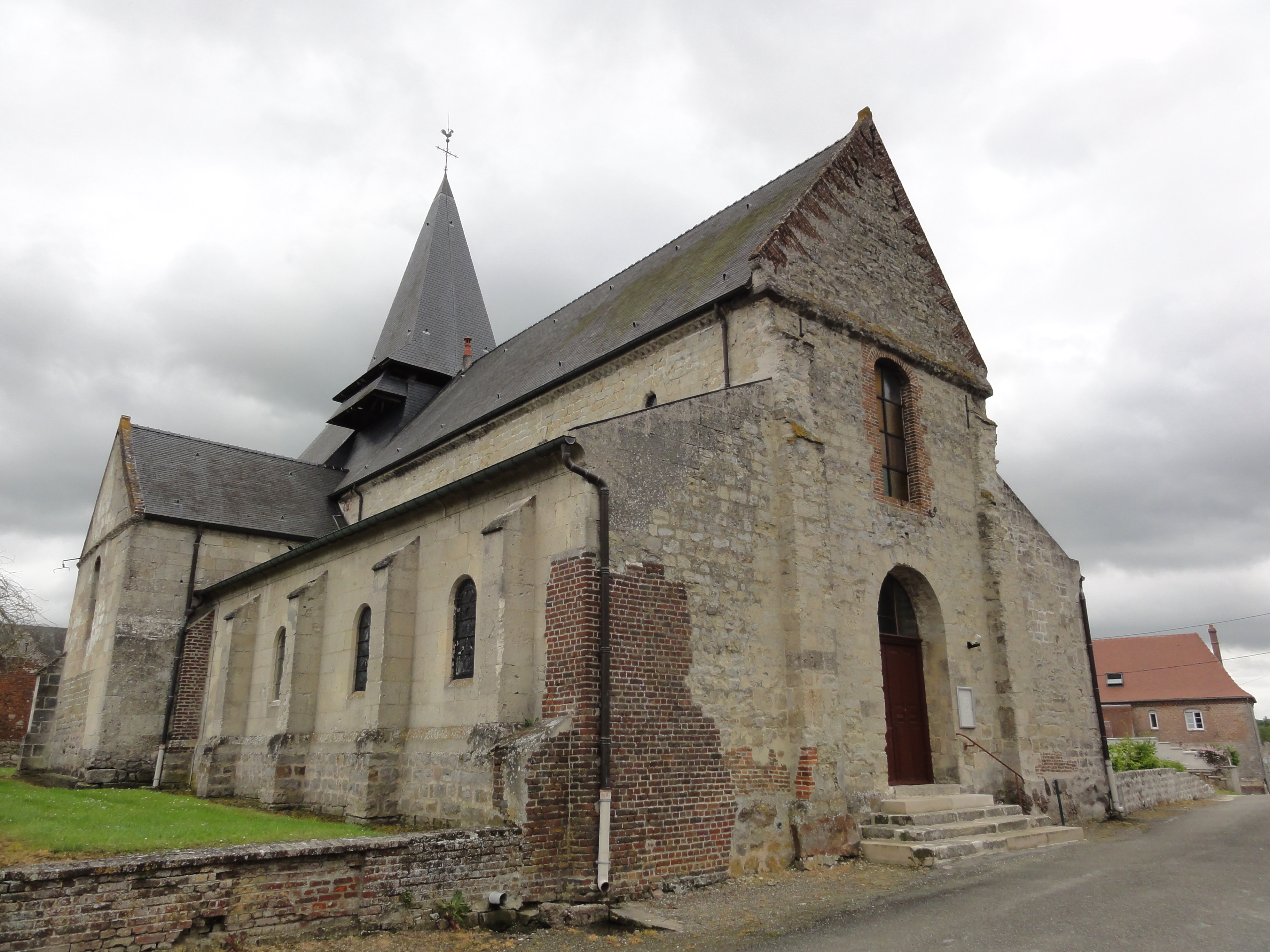 Versigny (Aisne) église